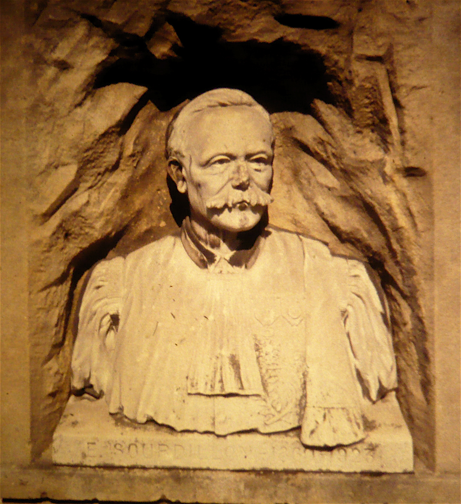 picture of Edmond Sourdillon